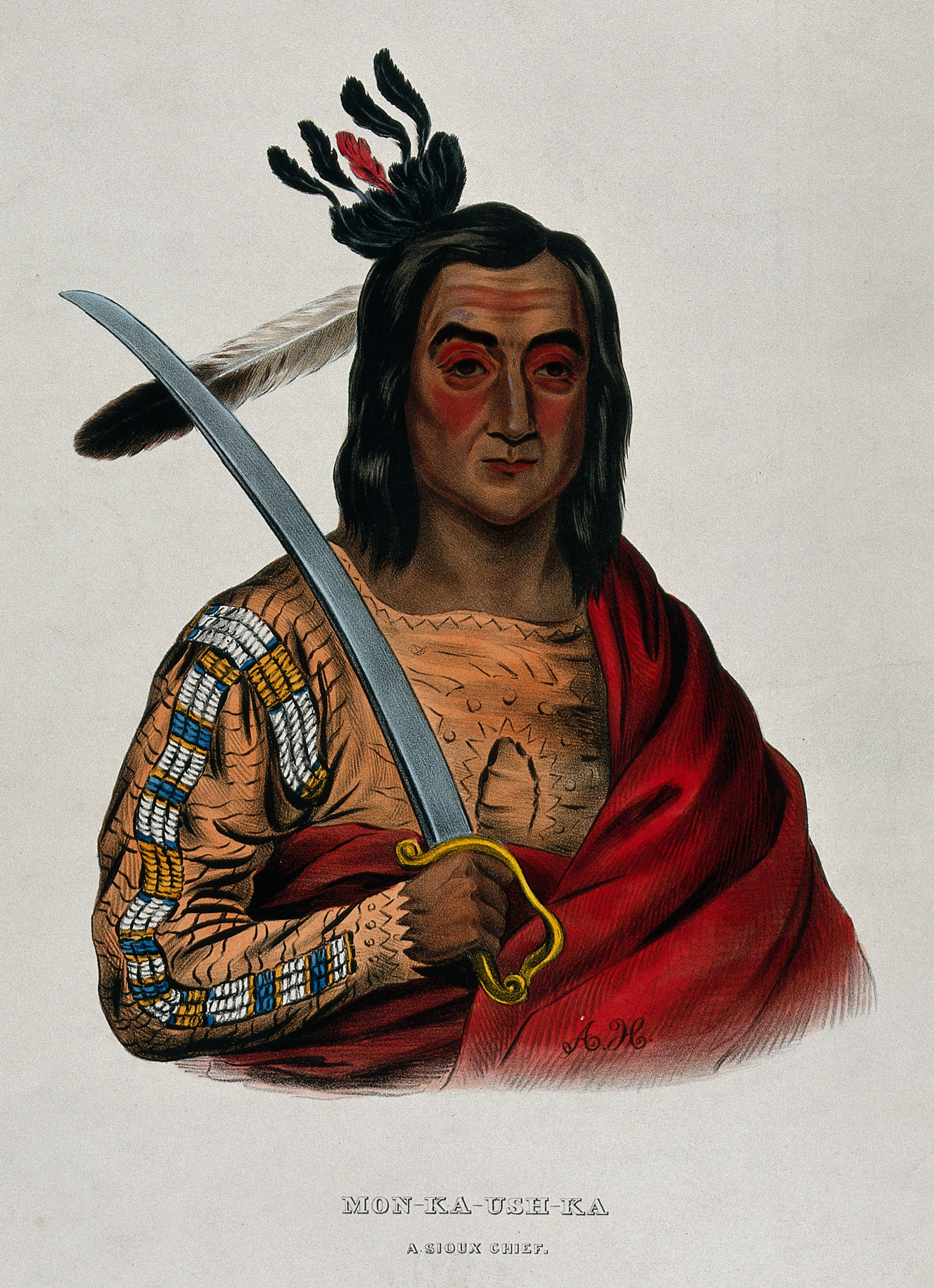 Portrait of Mon-Ka-Ush-Ka (Monkaushka), a Sioux chief, holding a sword and wearing a feathered headdress and a red cloak Iconographic Collections Keywords: Indians, North American; Thomas Loraine McKenney; Alfred M. Hoffy; Native Americans; Portrait; G. Cooke